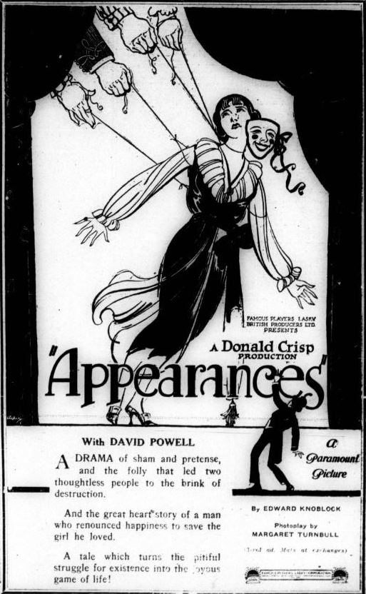 American advertisement for the British film Appearances (1921), the ad consists of a drawing with no stills from the film, on page 35 of the June 17, 1921 Variety.